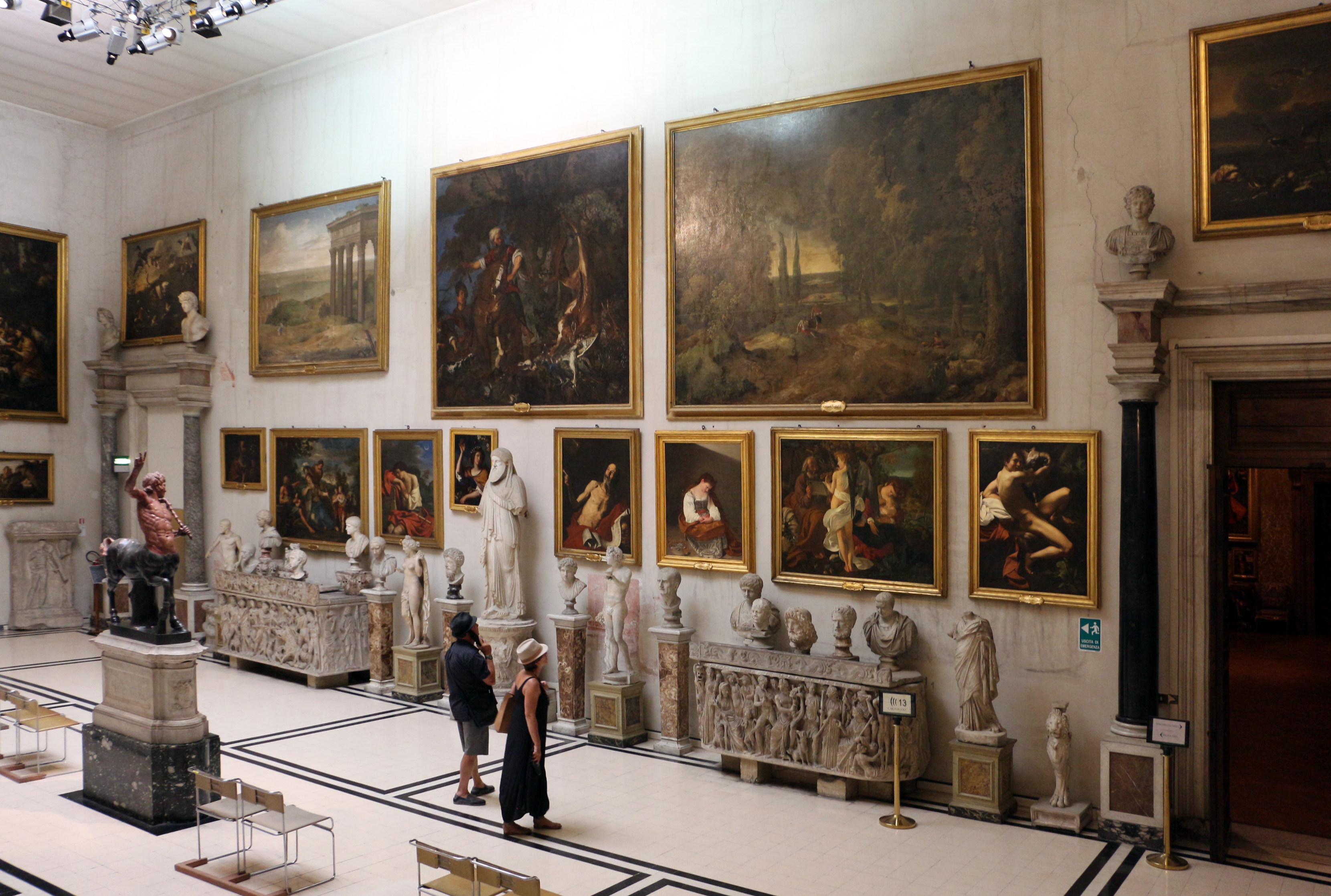 Palazzo Doria Pamphilj (Rome) - Interiors